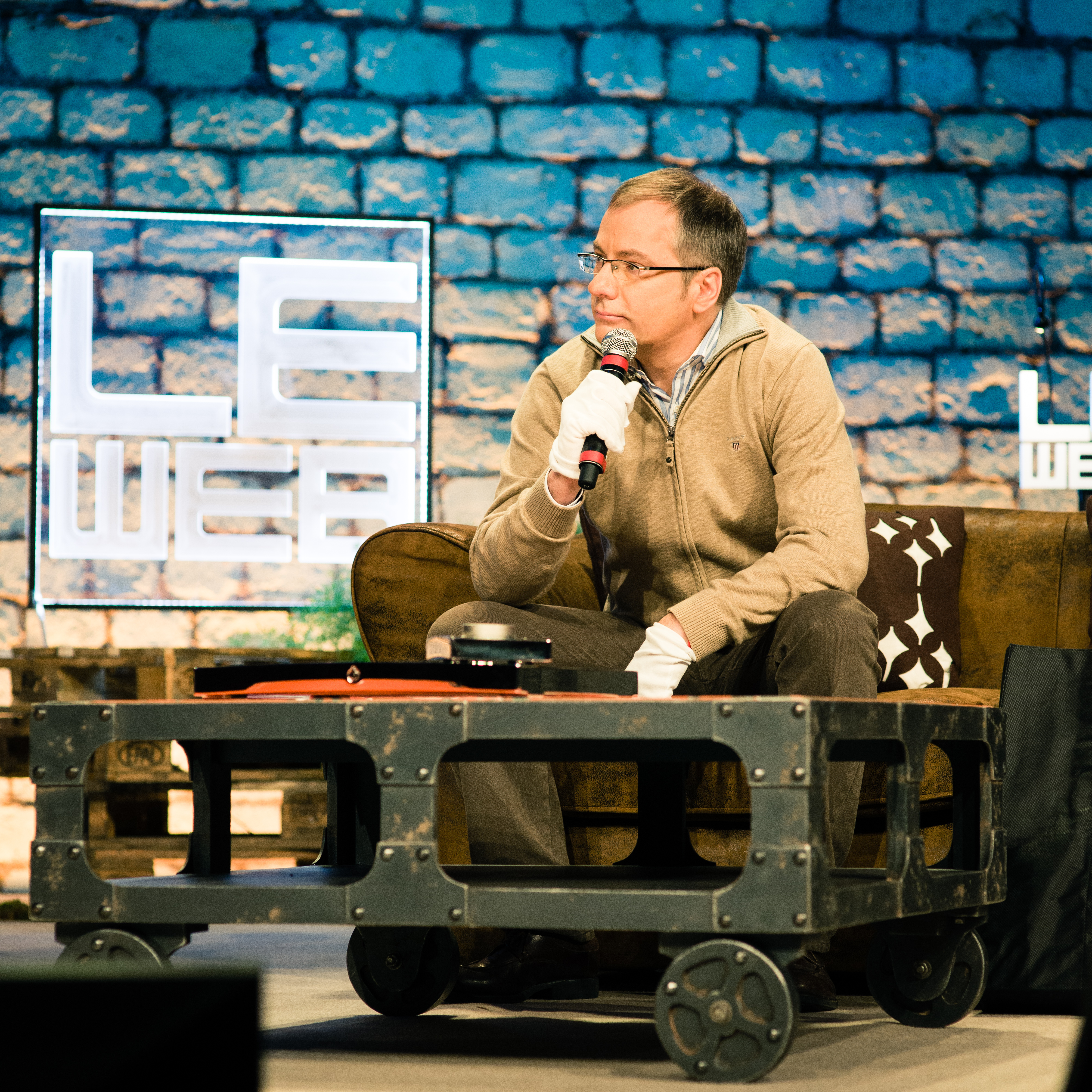 Photo for LeWeb2012 Conference, Paris